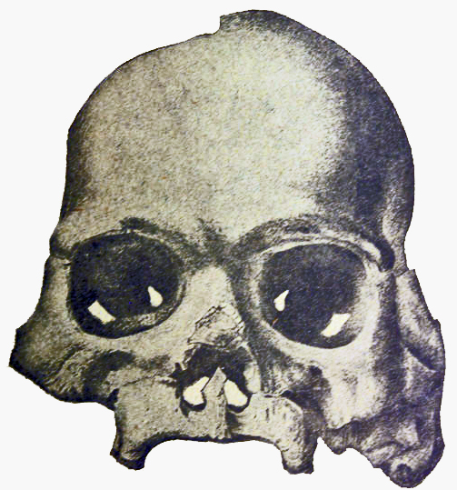 Drawing of the Calaveras Skull, an archaeological hoax that geologist Josiah Whitney believed to prove that humans had existed in the Pliocene age.